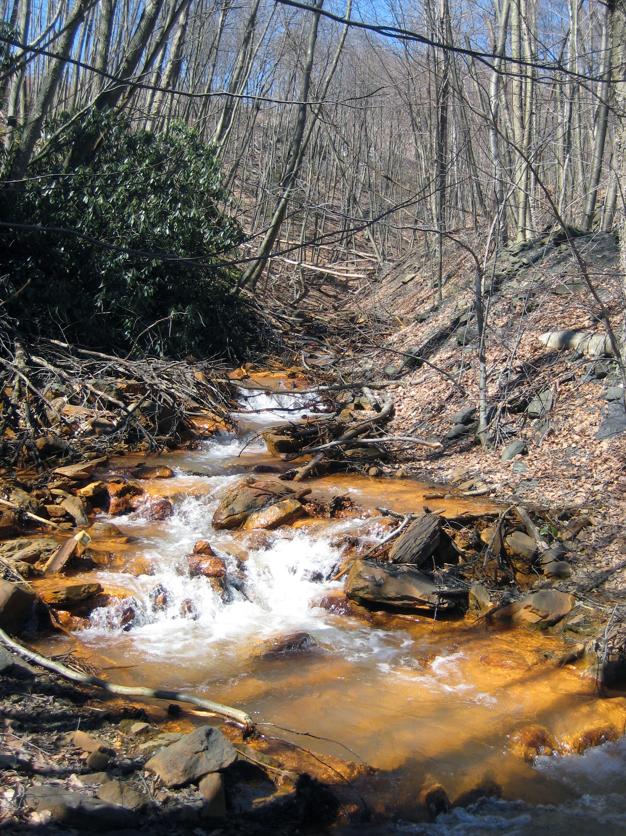 Acid mine drainage in a tributary to Big Mine Run near Centralia, PA